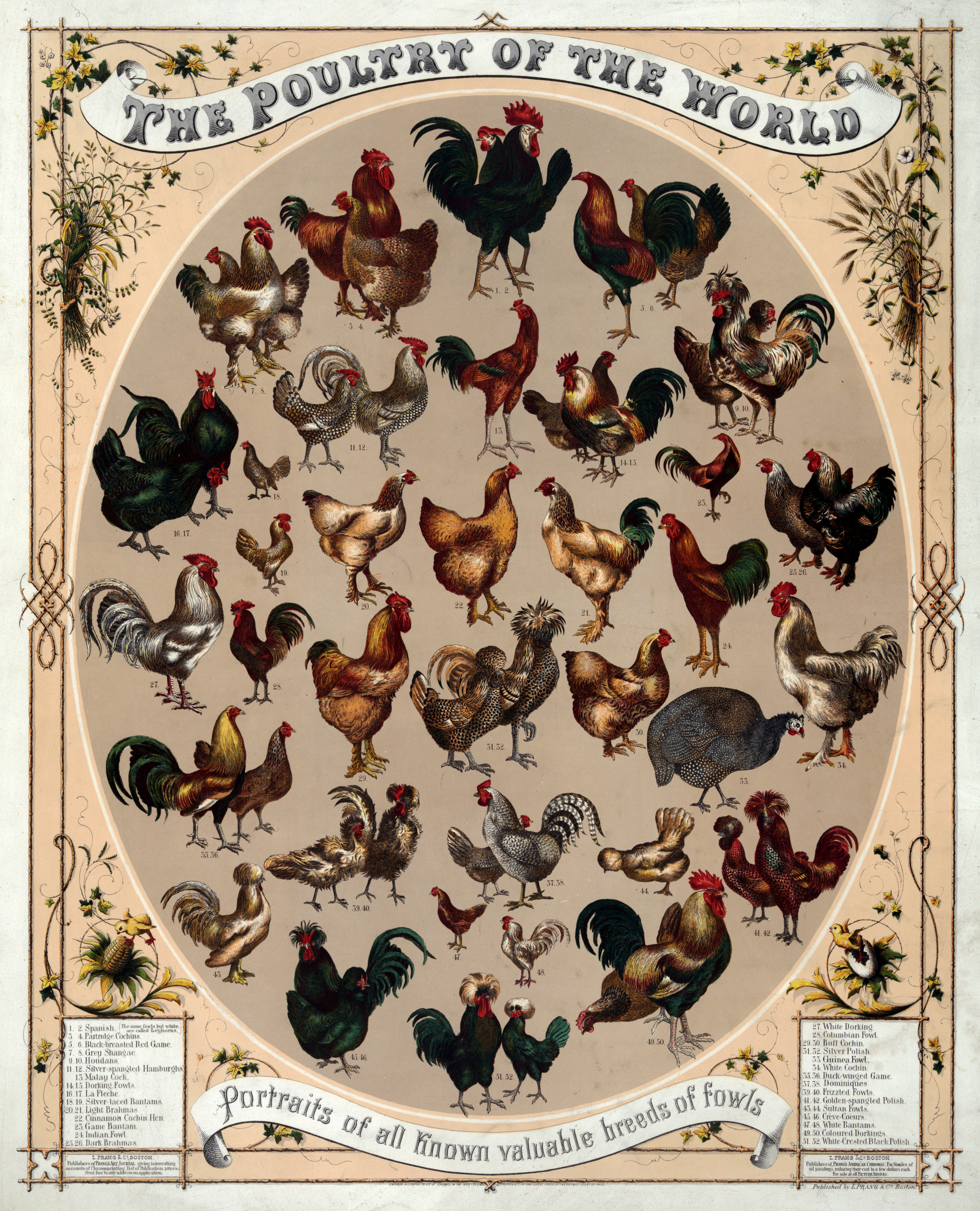 The poultry of the world. Portraits of all known valuable breeds of fowl. Thirty types of identified chickens (fifty-two individuals, male and female). Chromolithograph by L. Prang & Co., Boston Transcription below by Papa Lima Whiskey 1. 2. Spanish. [The same fowl but white are called Leghorns.] 3. 4. Partridge Cochins. 5. 6. Black-Breasted Red Game. 7. 8. Grey Shangae. 9.10. Houdans. 11.12. Silver-spangled Hamburghs. 13. Malay Cock. 14.15. Dorking Fowls. 16.17. La Fleche. 18.19. Silver-laced Bantams. 20.21. Light Brahmas 22. Cinnamon Cochin Hen. 23. Game Bantam. 24. Indian Fowl. 25.26. Dark Brahmas 27. White Dorking. 28. Columbian Fowl. 29.30. Buff Cochin. 31.32. Silver Polish. 33. Guinea Fowl. 34. White Cochin. 35.36. Duck-winged Game. 37.38. Dominiques 39.40. Frizzled Fowls. 41.42. Golden-spangled Polish. 43.44. Sultan Fowls. 45.46. Creve-Coeurs. 47.48. White Bantams. 49.50. Coloured Dorkings 51.52. White-Crested Black Polish. Editorial notes: Square bracketed text on first line is present in the original. "Shangae" is a bastardisation of Shanghai, referring to Shanghai Chickens, which were later called Cochin-China Fowl and then simply Cochin [1] [2]. Why a distinction was made in this case is unclear to Papa Lima Whiskey.